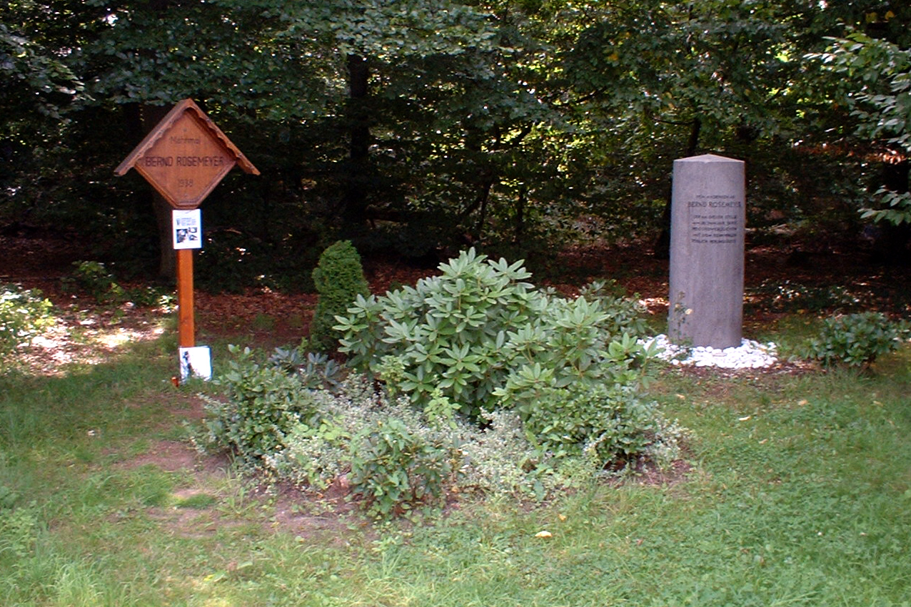 Bernd-Rosemeyer-memorial at the autobahn A5, parking place "Bernd Rosemeyer", near Mörfelden-Walldorf